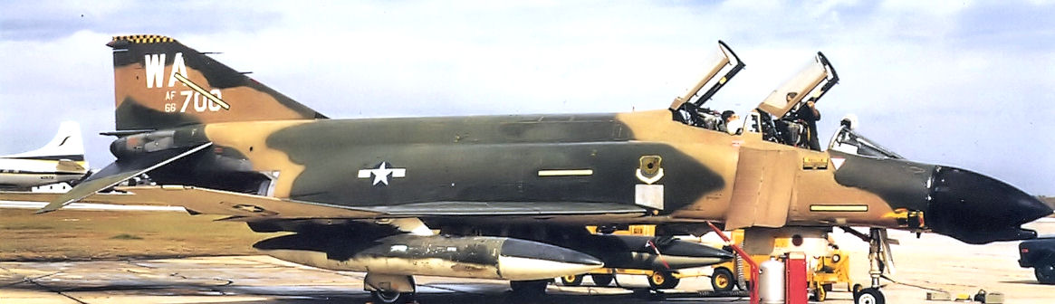 414th Fighter Weapons Squadron - McDonnell F-4D-32-MC Phantom 66-8700 November 1972. Aircraft retired to AMARC as FP0226 Mar 14, 1989.